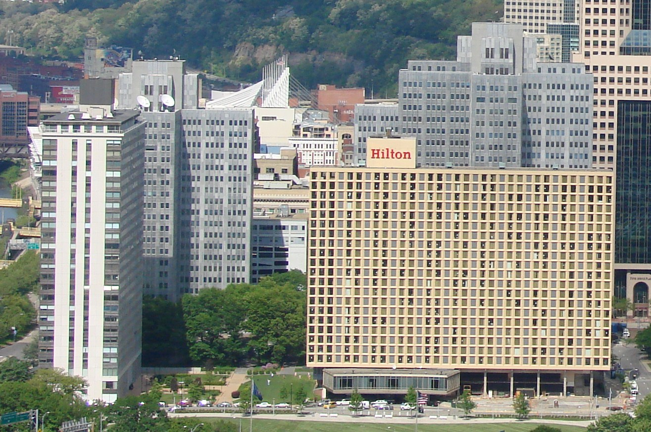 A view of the Gateway Towers, Gateway Center Complex, and Pittsburgh Hilton in Pittsburgh. }